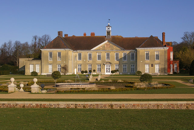 Reigate Priory. This grade I listed building dates mainly from the 1770s, although some parts of the previous Tudor building remain, built by the first Lord Howard of Effingham, uncle of Catherine Howard, the fifth wife of Henry VIII, who had been given the Manor and Priory of Reigate in 1541 following the dissolution. Lord Howard of Effingham was the father of the second Lord Howard of Effingham, famous for his victory over the Spanish Armada, who also lived here. Prior to this, an earlier Augustinian monastery had stood here, dating from the 13th century, parts of which were incorporated into the Tudor mansion. There have been various owners since, including Sir John Parsons, a London brewer and Lord Mayor of London, who bought it from the Howards in 1703, a Mr Richard Ireland who bought it in 1766 and was responsible for the major rebuild and Lord Somers, owner of much of Reigate, who bought it in 1808 and whose family owned it until bought by the local council in 1945. It now houses Reigate Priory Junior School - what must be one of the most impressive state school buildings in the country! For listing particulars, The photo shows the parterre garden to the south of the building, built as part of the restoration of Priory Park completed in 2008. For a photo pre restoration see 26572 and during restoration see 1199599.